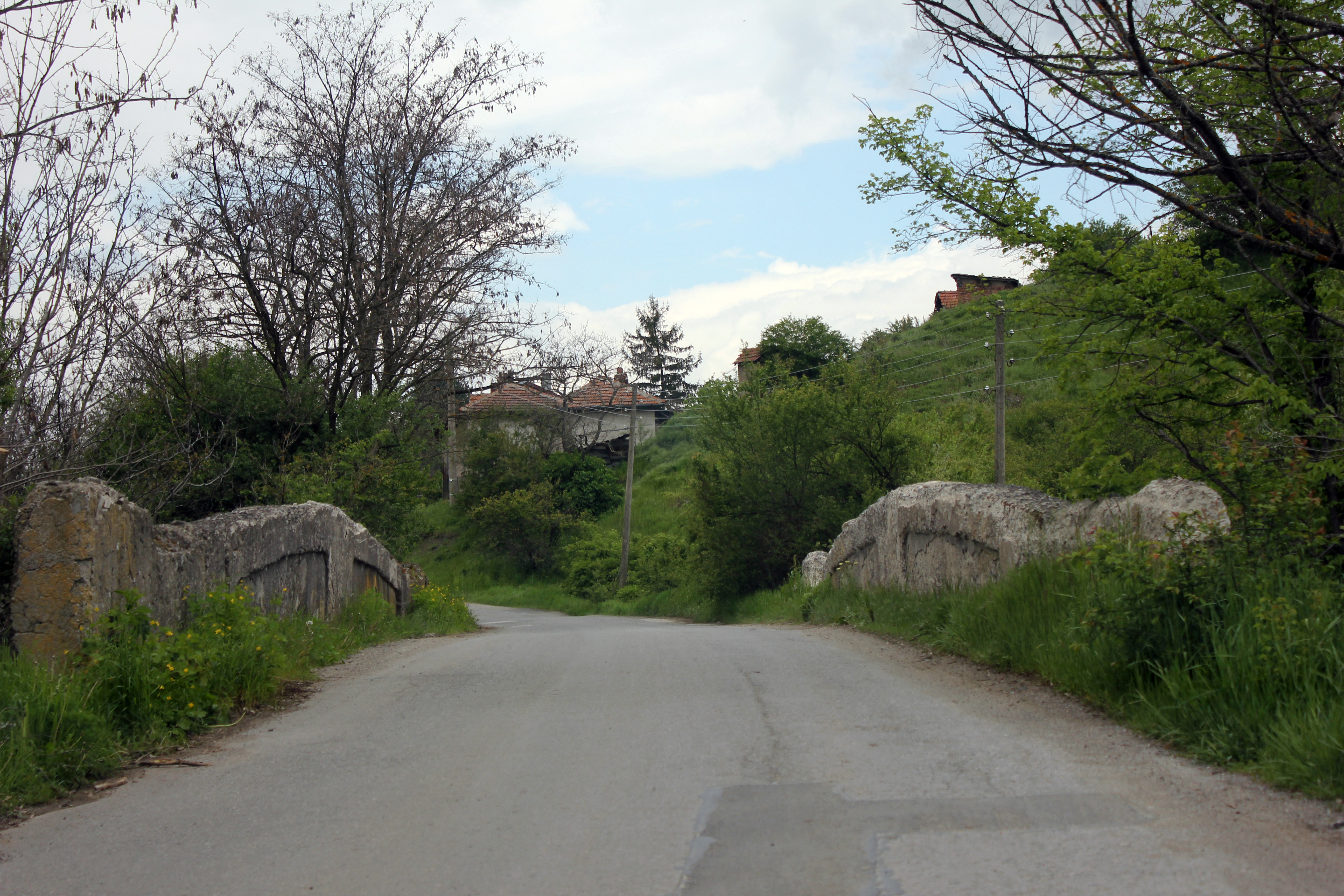 Zlatusha bridge over Belitsa river on the road from Rosoman village